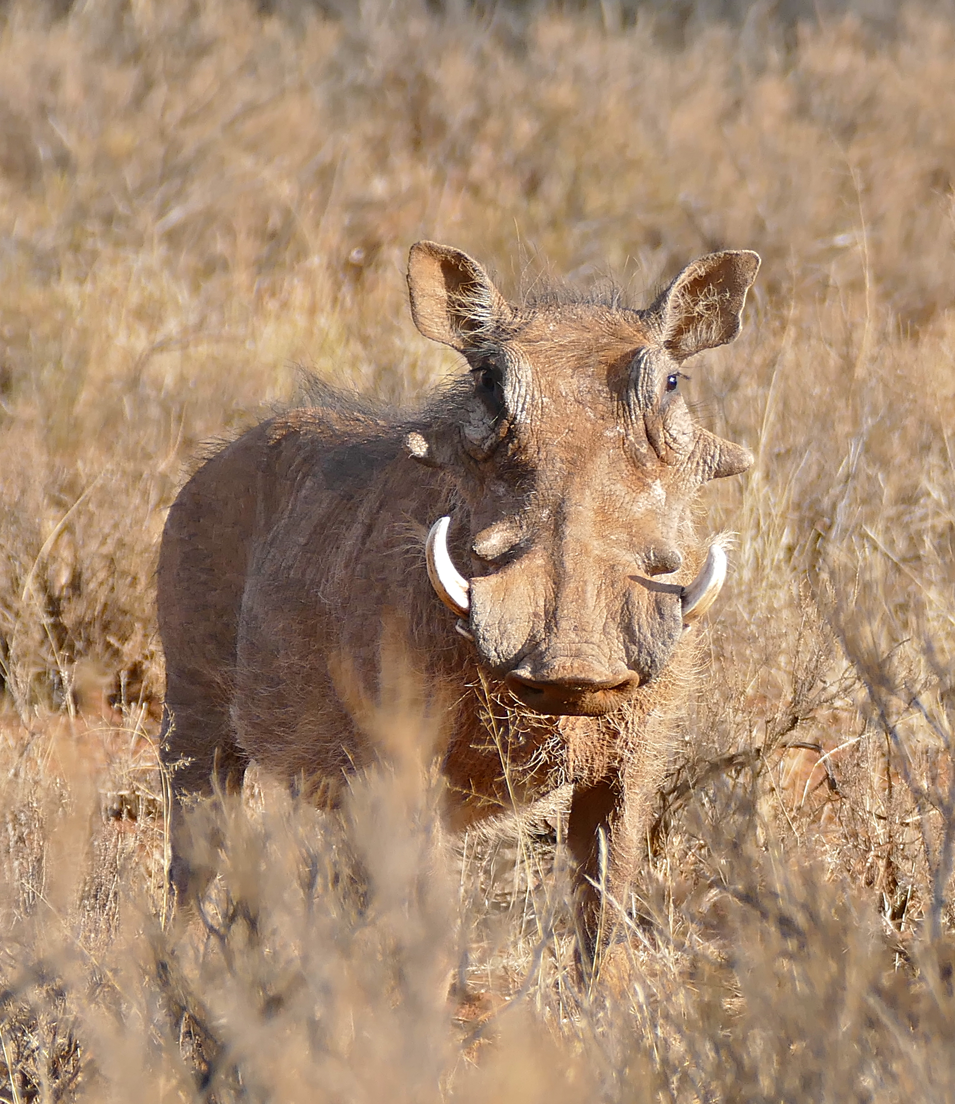 Mokala NP, Northern Cape, SOUTH AFRICA